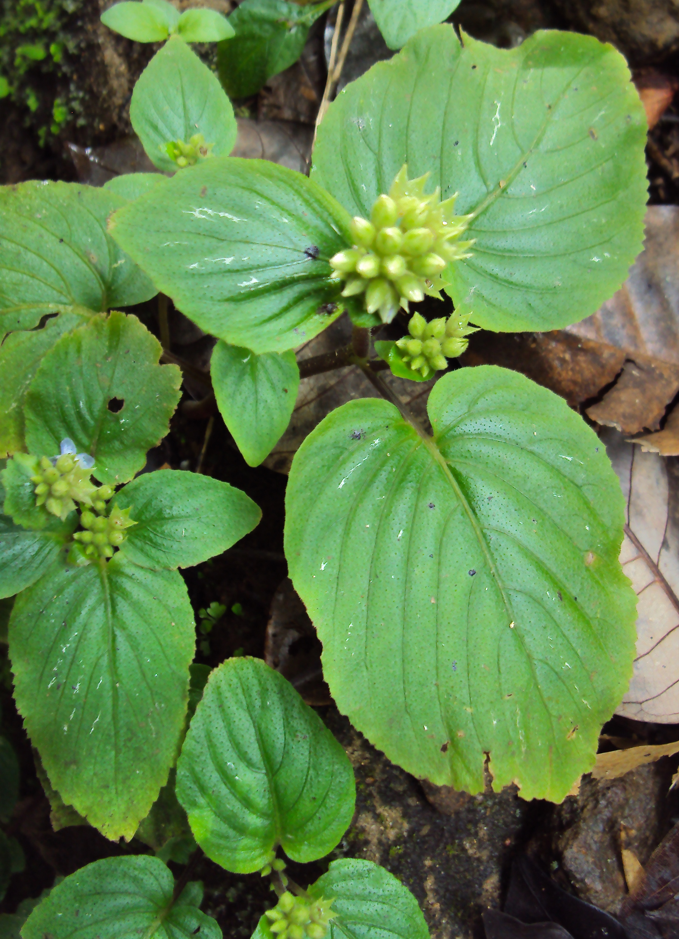 Epithema carnosum var. hispida